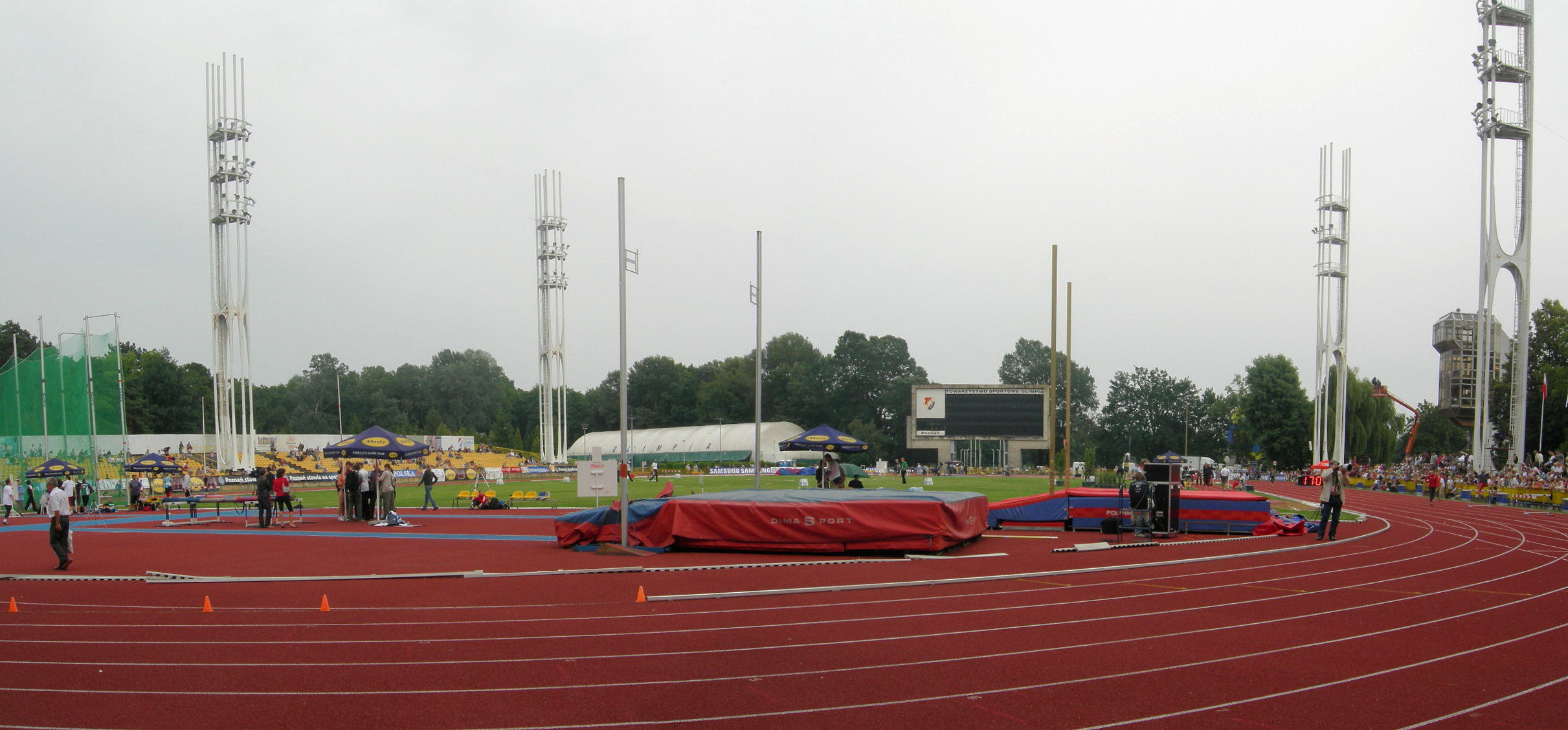 stadium during Polish Championship in athletics 2007 - Poznań